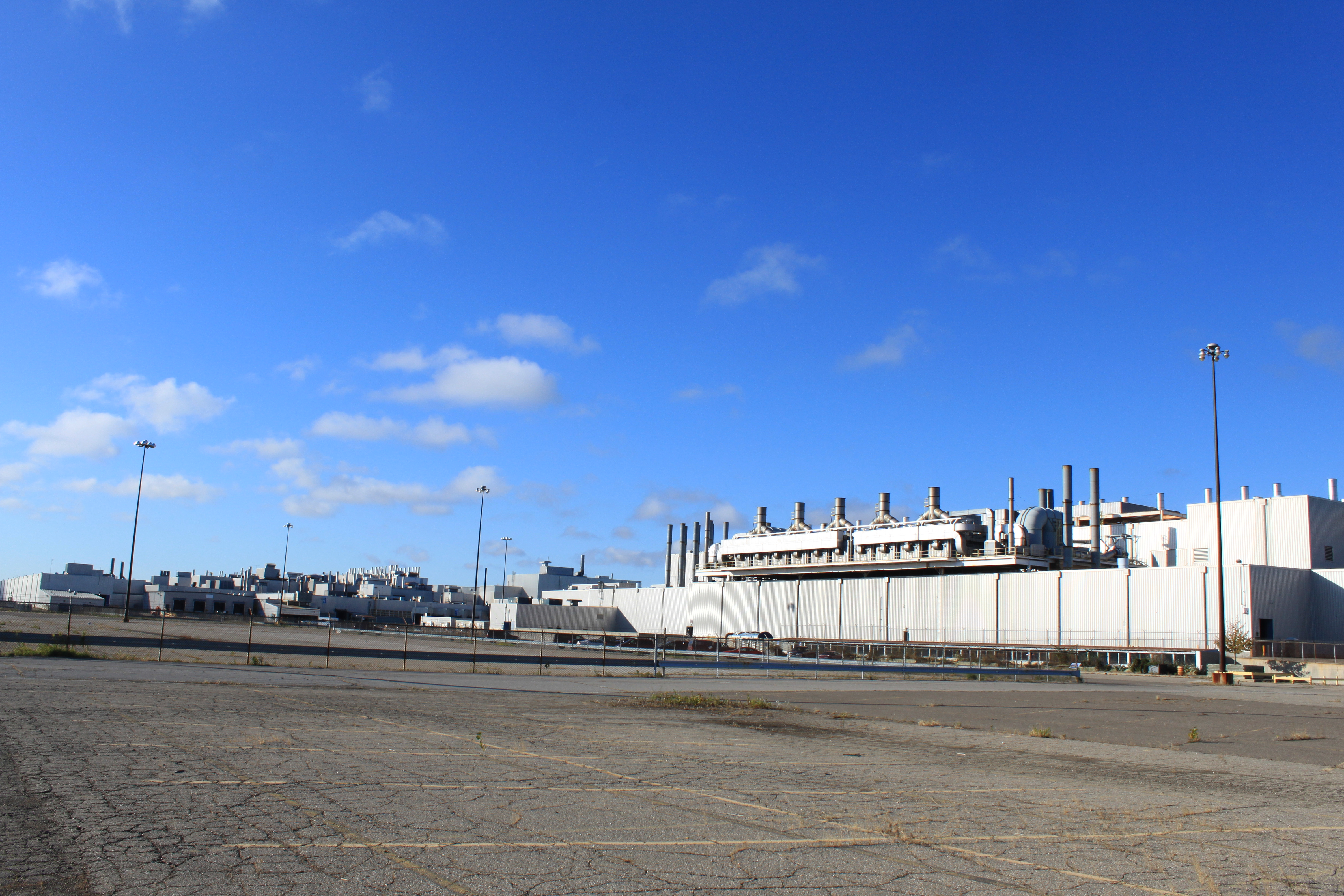 Ford Wixom Assembly Plant, 28801 South Wixom Road, Wixom, Michigan